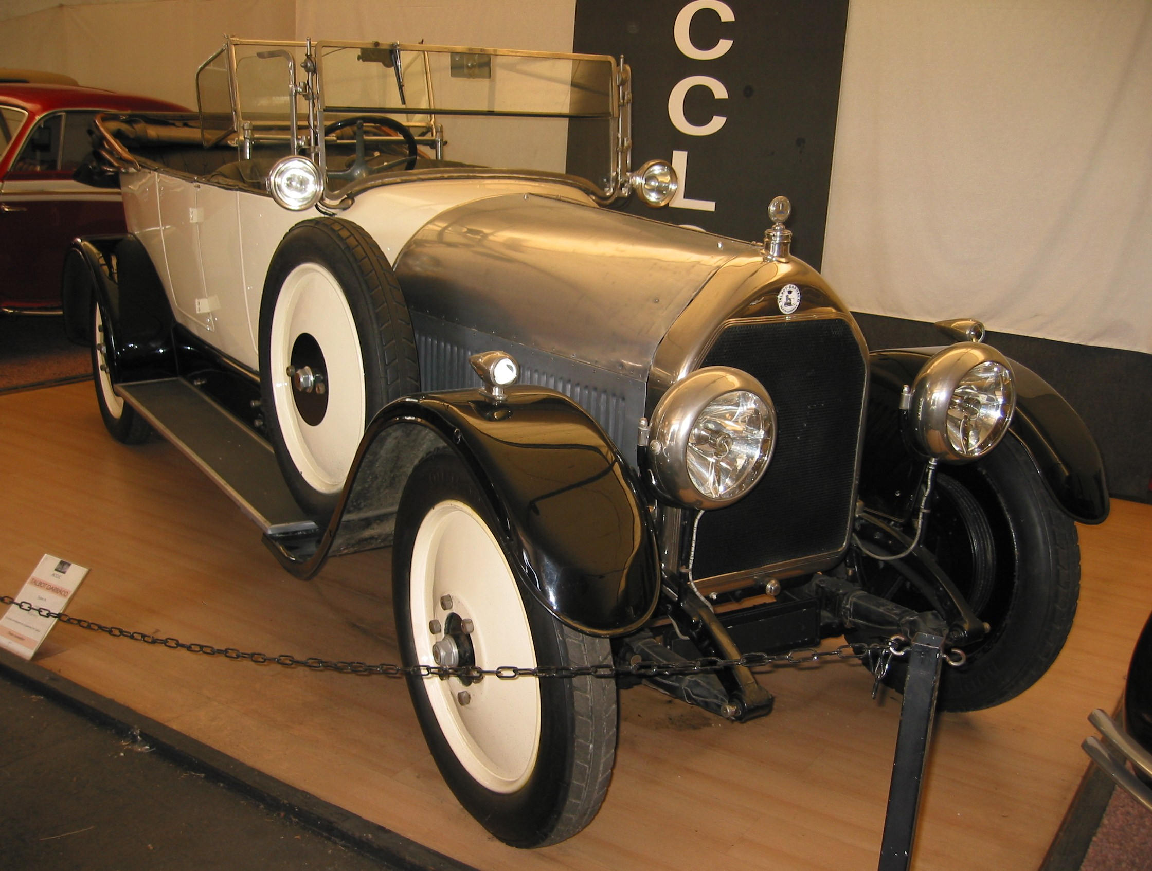 Talbot-Darracq 1920 Type A 20 horsepower 4594 cc V8